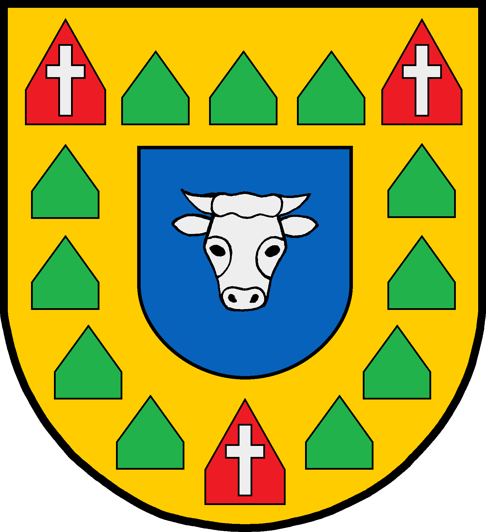 Coat of arms of the Amt (county) Bredstedt-Land in Schleswig-Holstein, Germany.